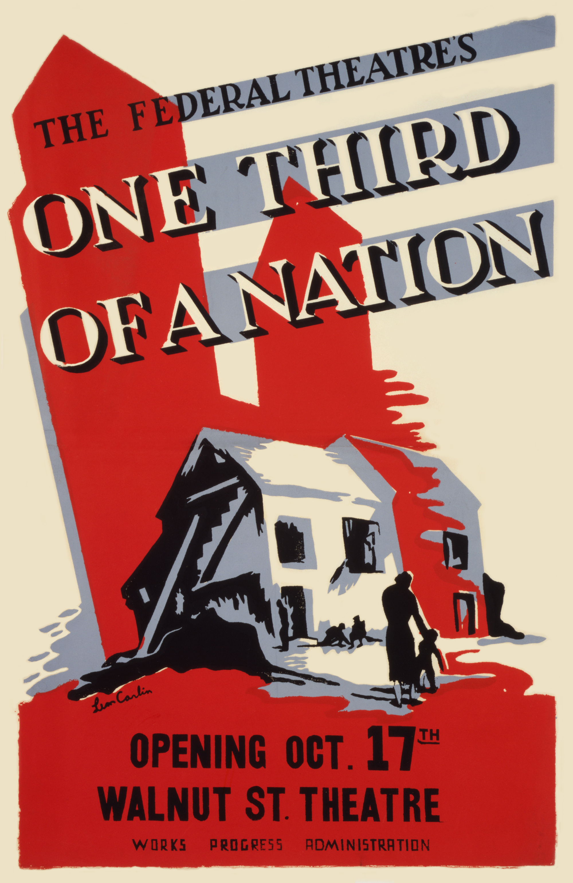 Silkscreen poster for the Philadelphia production of One-Third of a Nation, a Living Newspaper play by the Federal Theatre Project